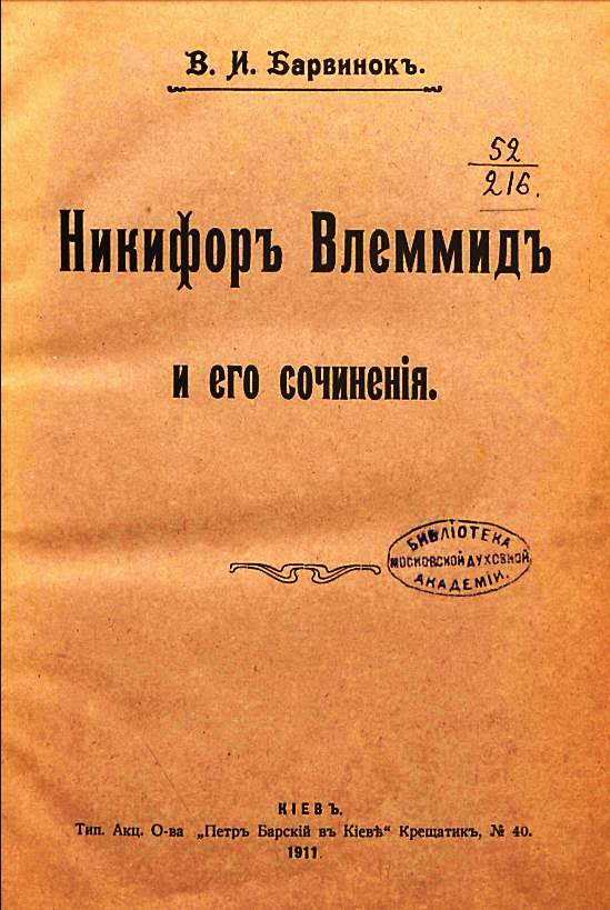 Photo copy of a 1911 book cover: Nikephoros Blemmydes and his works, by Volodymyr Barvinok, Kyiv